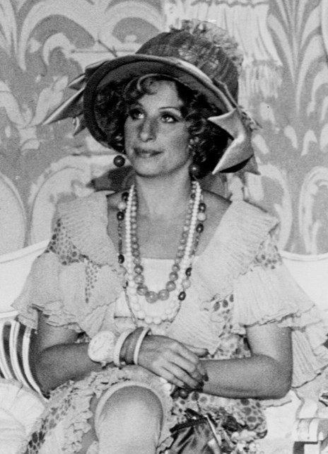 Photo of Barbara Streisand from a 1975 television special Funny Girl to funny Lady. The special was to promote the film Funny Lady.